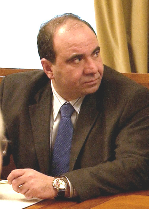 Portrait of Zurab Zhvania, Prime Minister of Georgia, died 2005.